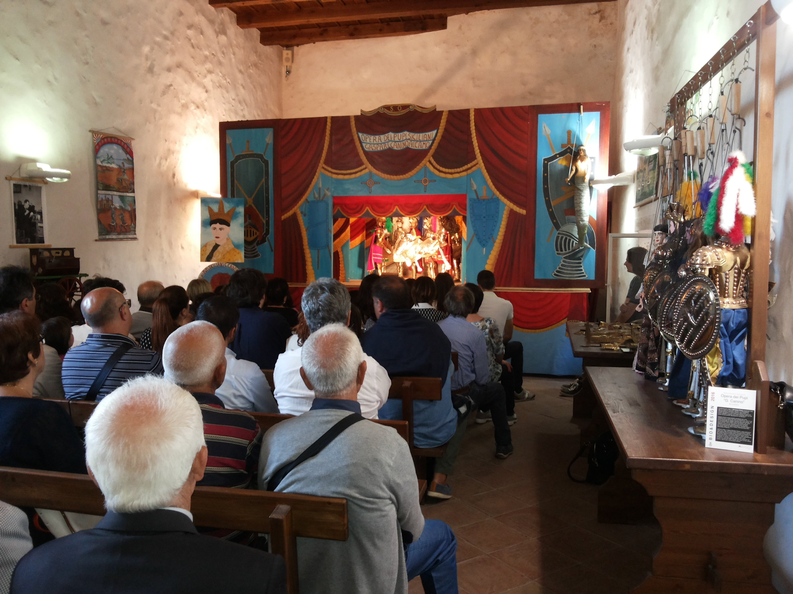 Castle of Alcamo - Interior